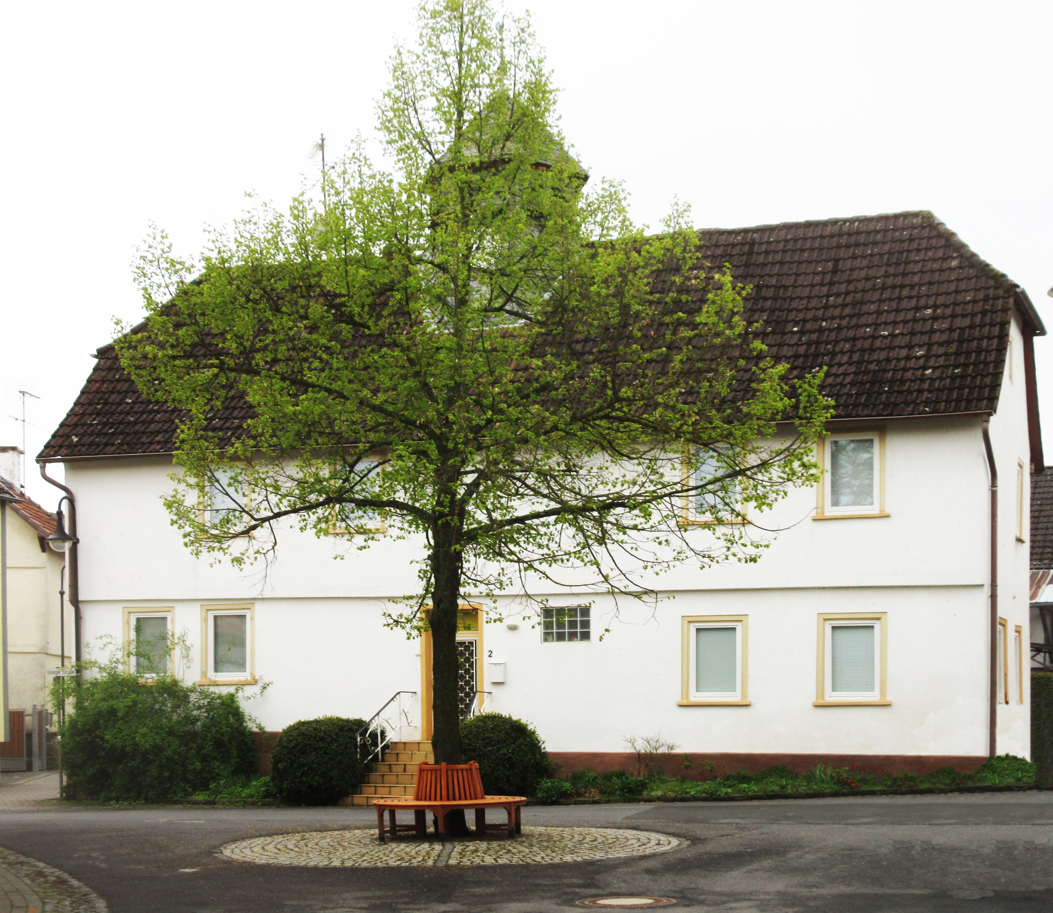 Bodenrod - Former Schoolhouse